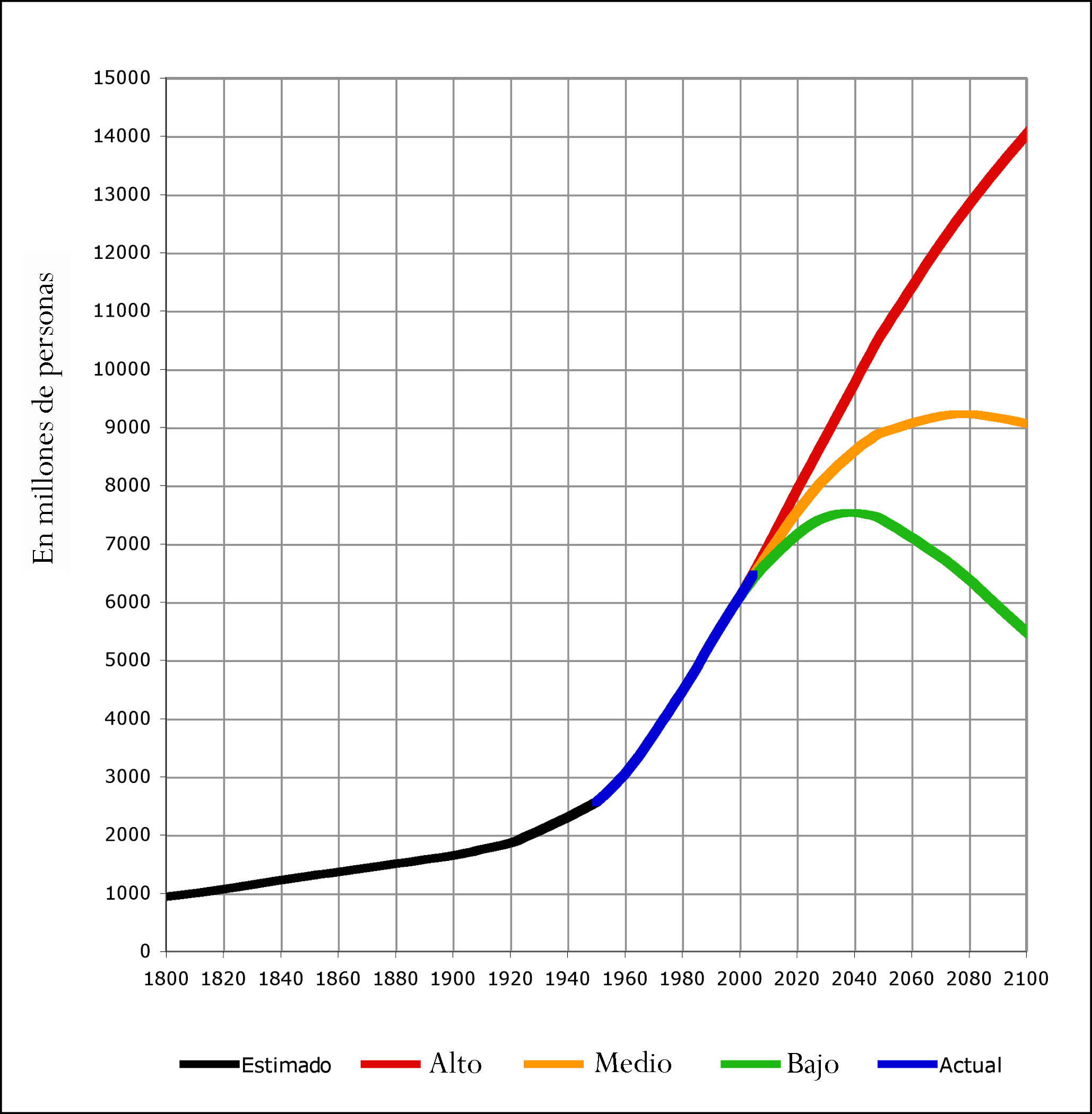 World population from 1800 to 2100, based on UN 2004 projections and US Census Bureau historical estimates.